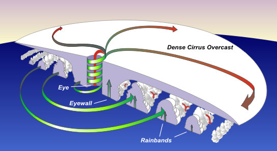 Cross-section schematic of a mature tropical cyclone